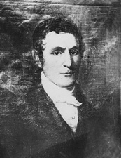 Portrait of Richard E. Parker